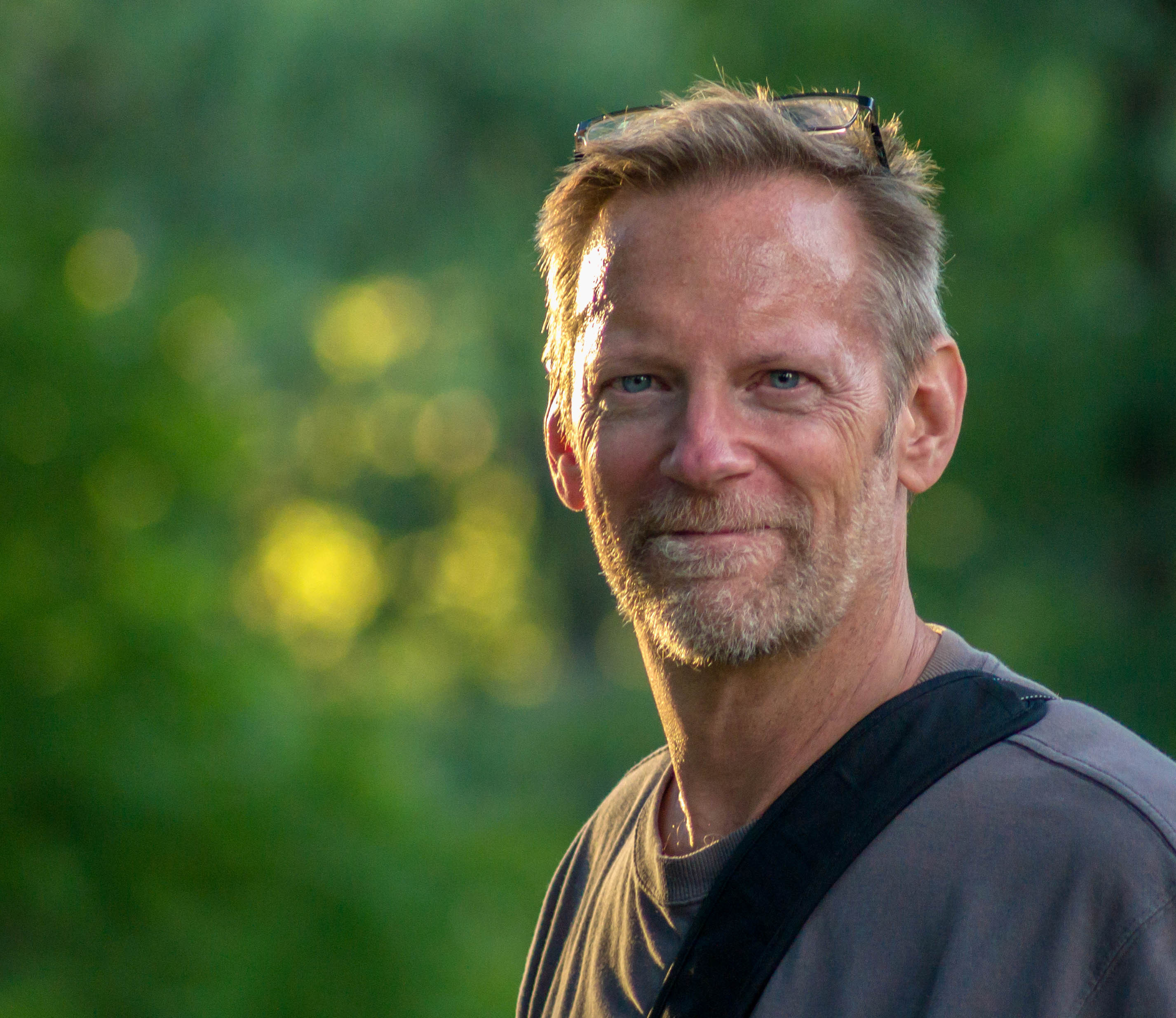 Ted Jensen